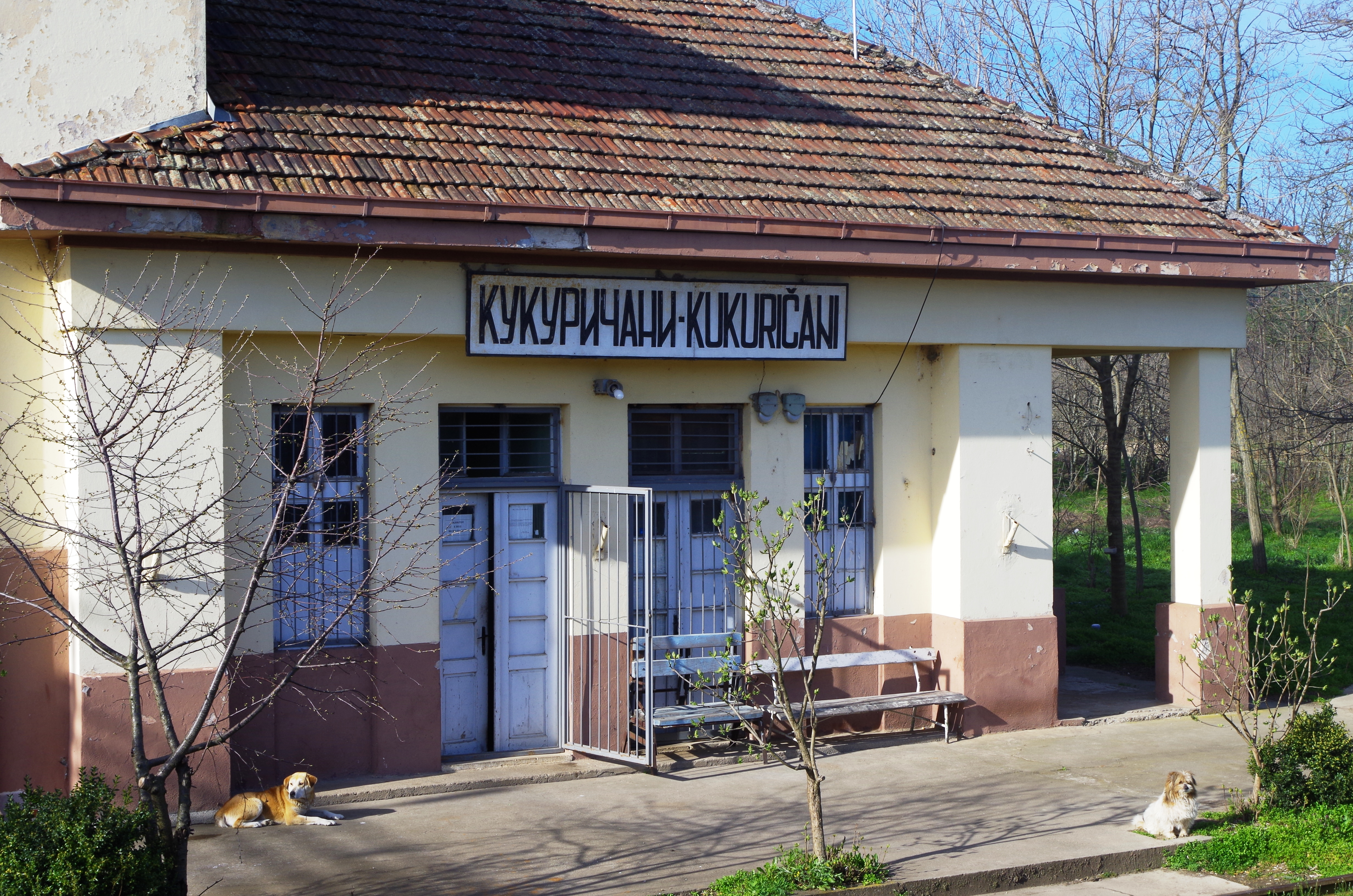 Train station in Kukuričani